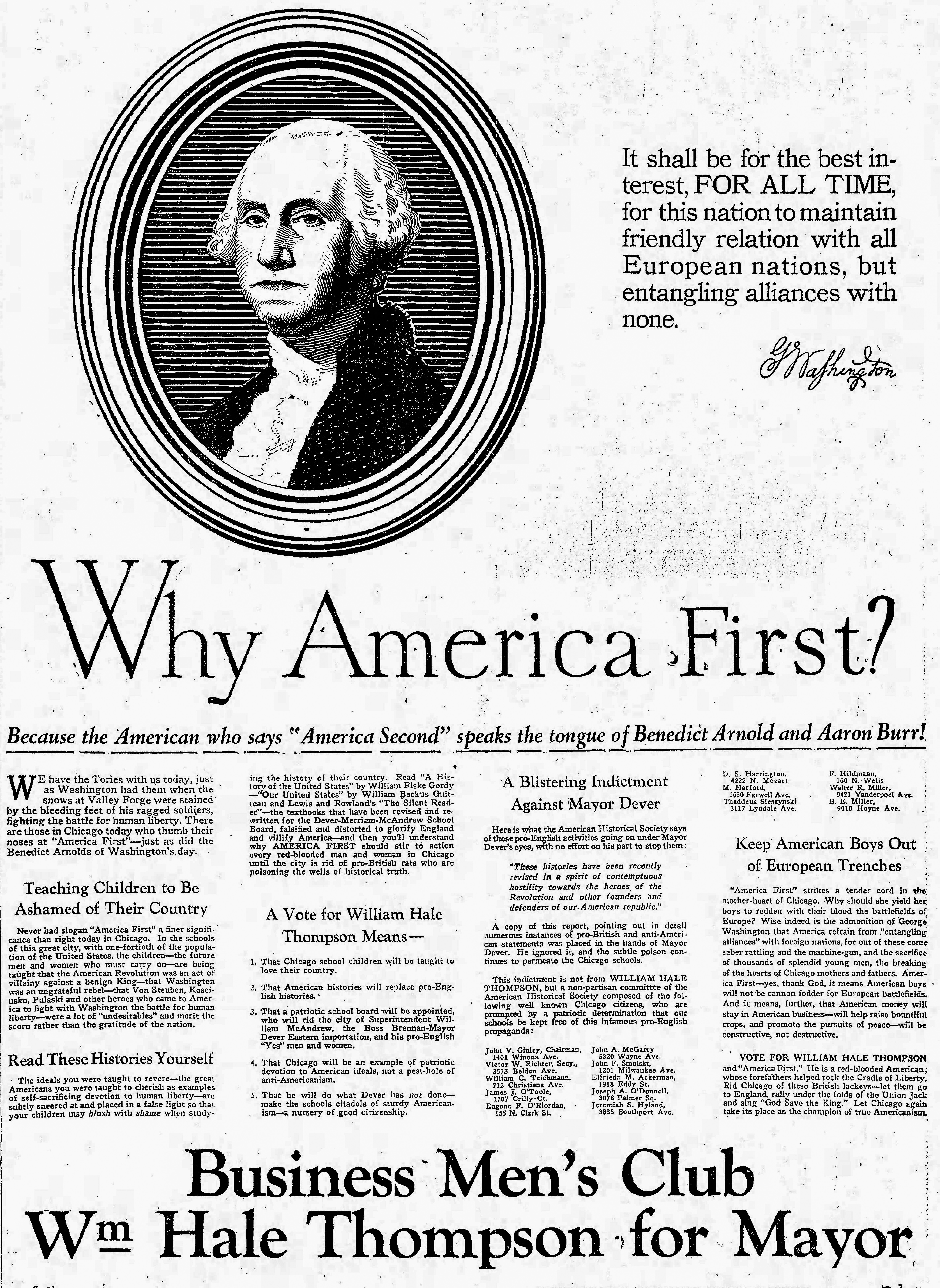 "America First" ad from Chicago mayoral election, 1927